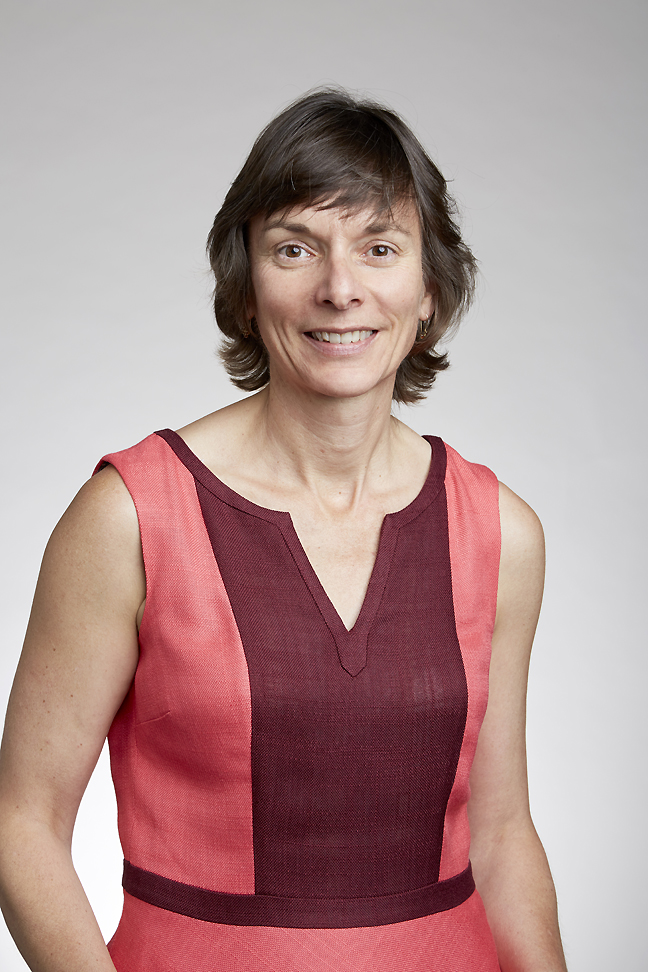 Nicola Ann Spaldin (née Hill, born 1969) FRS is Professor of Materials Theory at ETH Zurich, known for her pioneering research on multiferroics. Attribution: The Royal Society